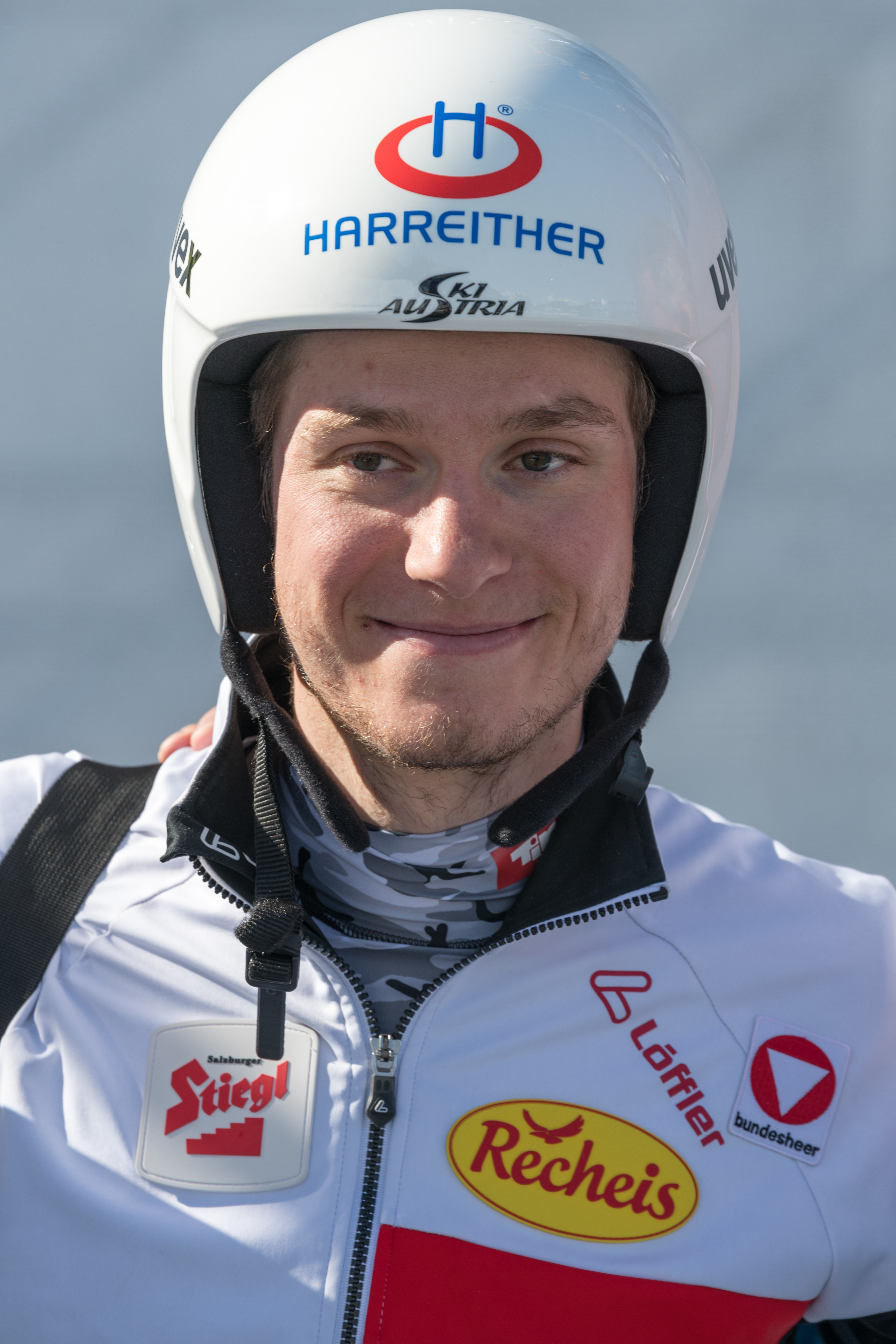 FIS Nordic Wolrd Ski Championships Seefeld 2019 - Training nordic combined HS109. Picture shows Martin Fritz (AUT).